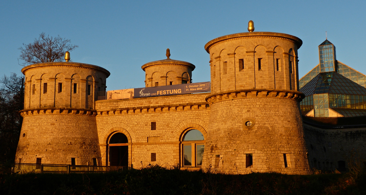 MUSEUM "DRÄI EECHELEN" IN SUNSET LIGHT situated Fort Thüngen in LUXEMBOURG-Kirchberg